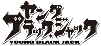 Young Black Jack logo